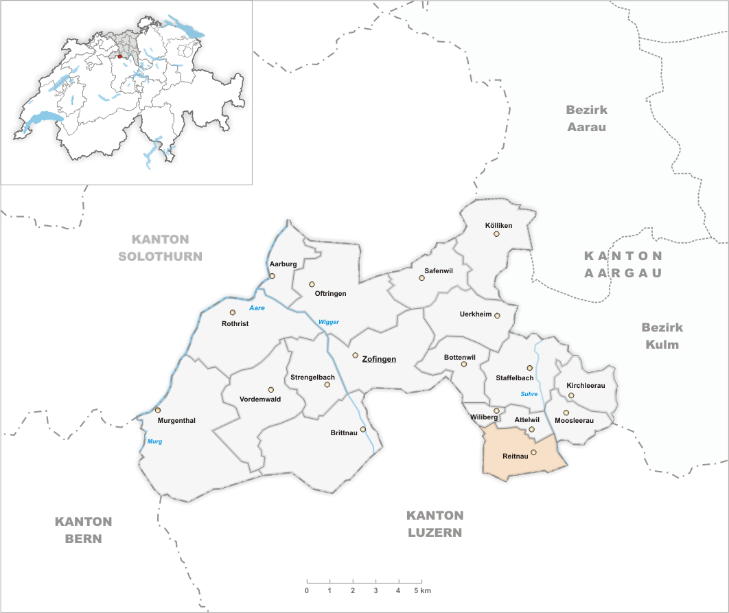 Municipality Reitnau